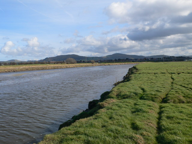 River Clwyd The river Clwyd as it wends its way to the sea through Rhuddlan Marshes.